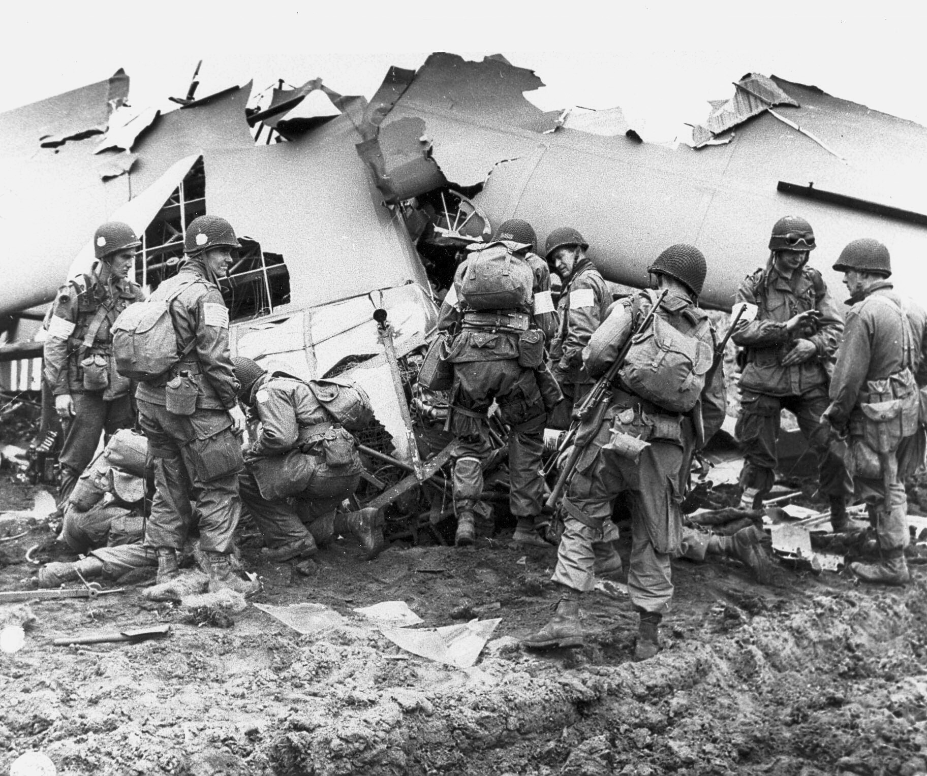 The HQ Divisional Artillery of the 101st Airborne Division troops that landed behind German lines in Holland examine what is left of one of the gliders that "cracked up."